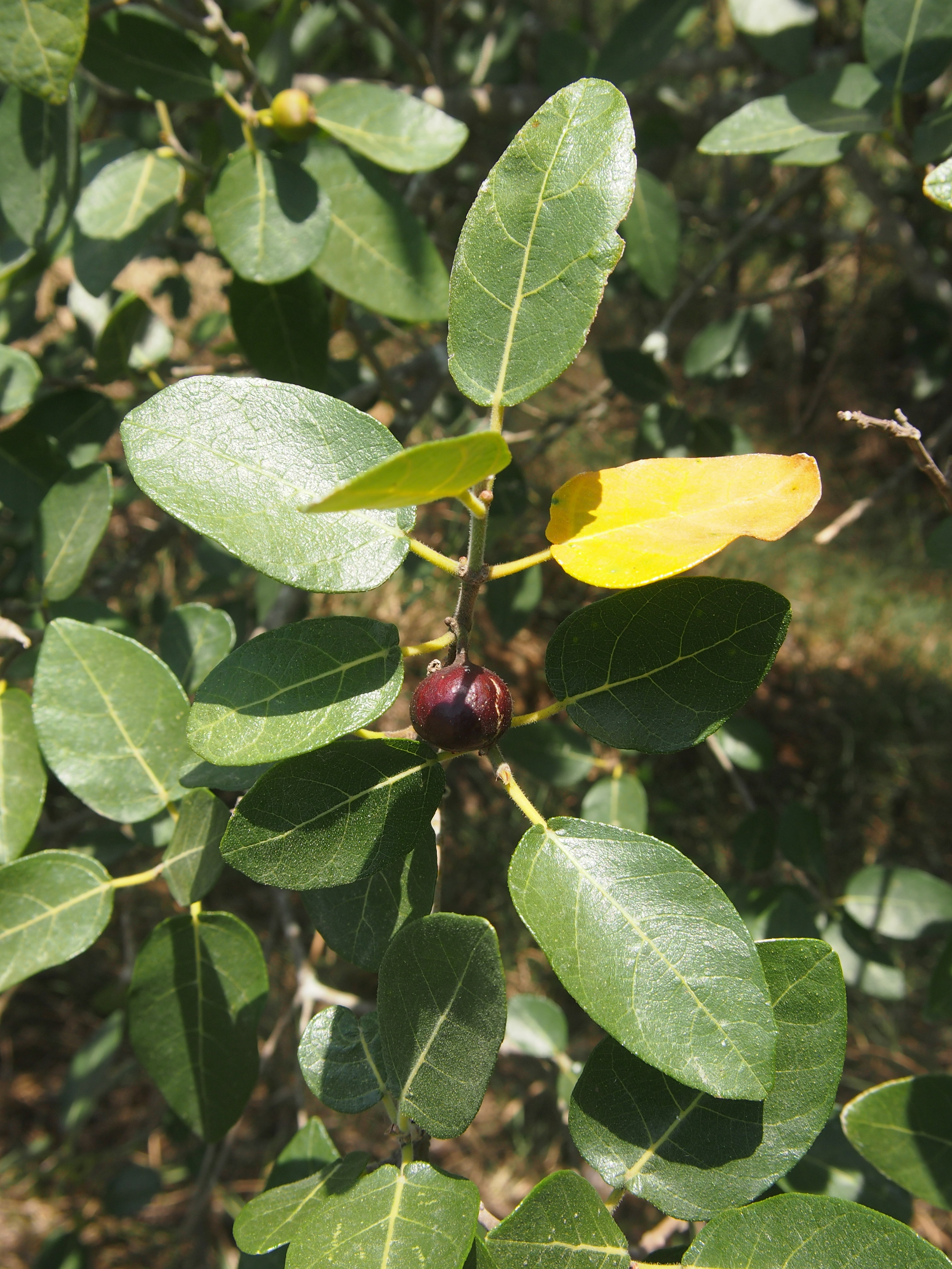 Sandpaper Fig (Ficus opposita) fruit and foliage